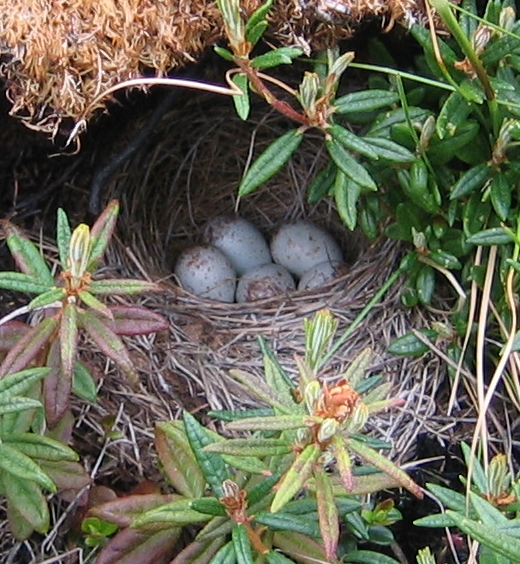 Nest of a Dark-eyed Junco (Junco hyemalis) Original image detail